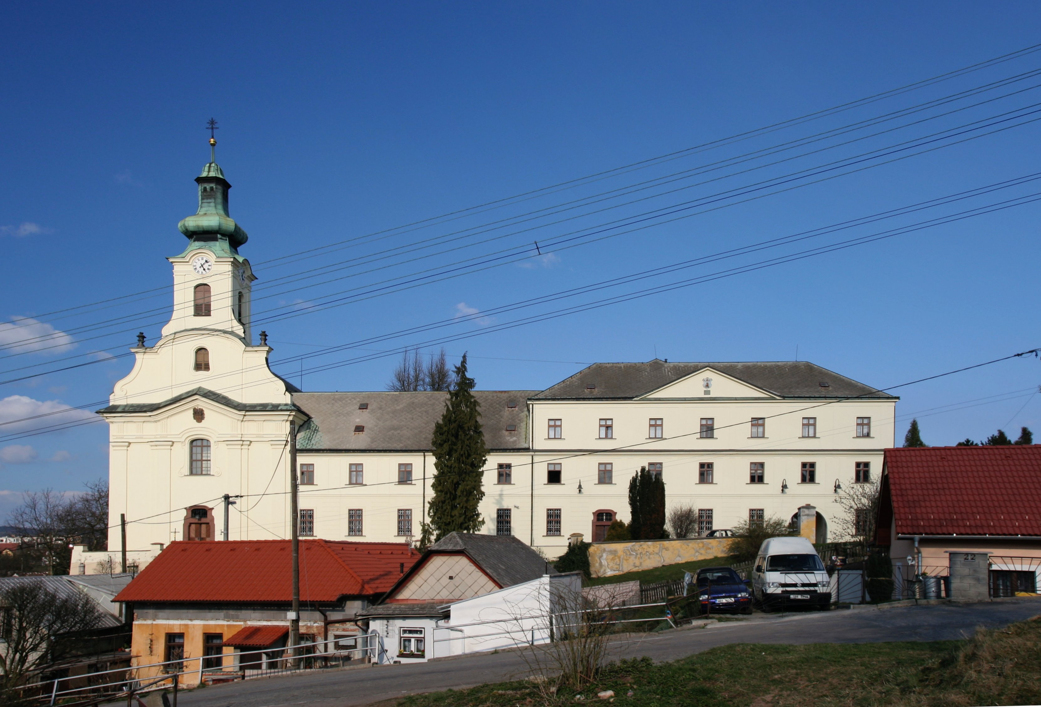 Monastery in Letovice